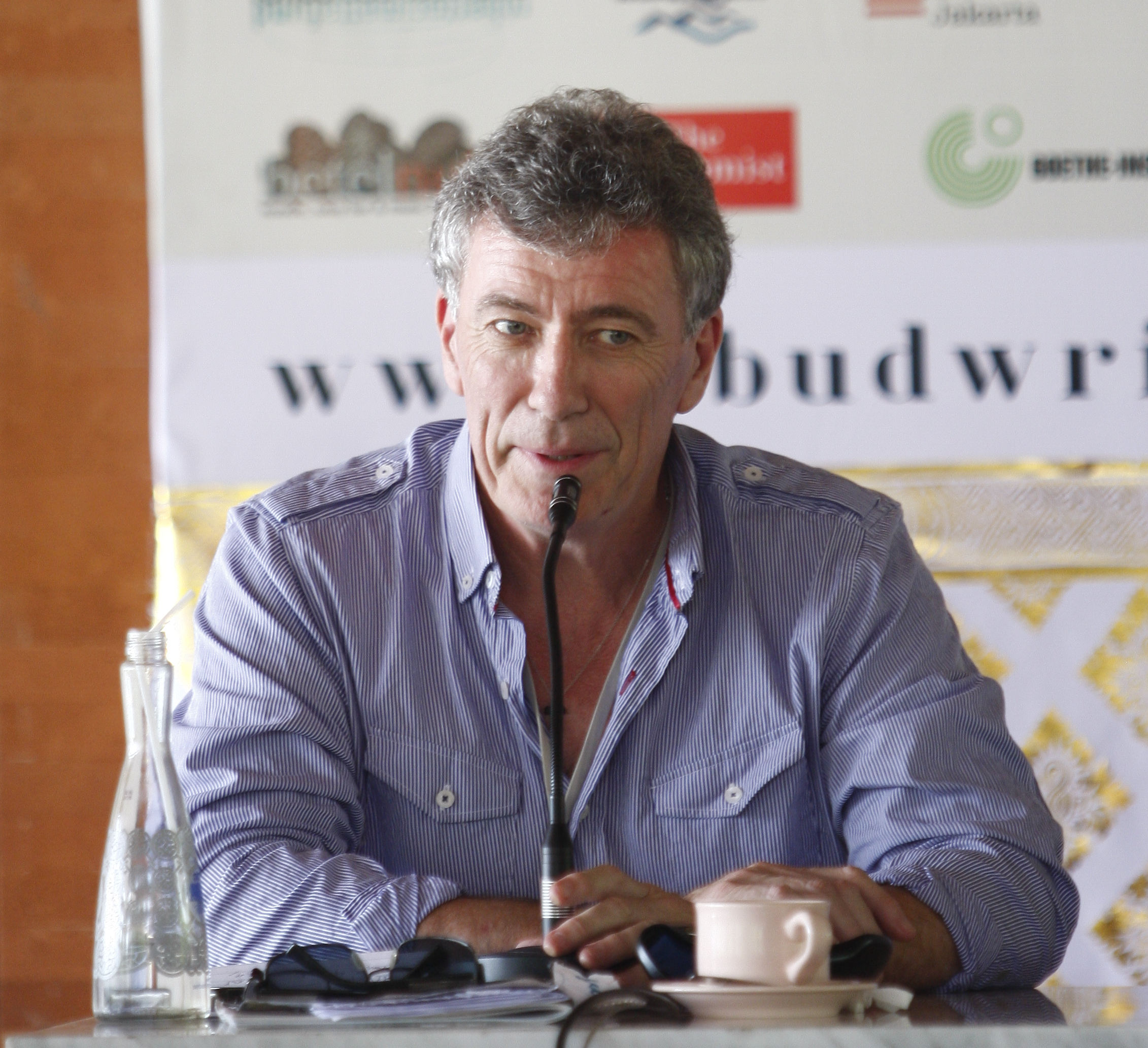 Ubud Writers & Readers Festival 2012. Image credit Stanny Angga.